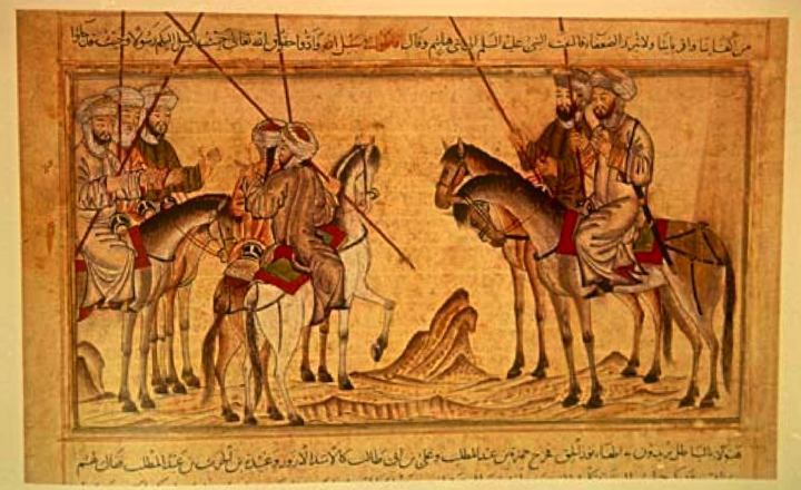 Mohammed exhorting his family before the battle of Badr. It is not immediately apparent which figure in this drawing is Mohammed. From the Jami'al-Tawarikh, dated 1314-5. In the Nour Foundation's Nasser D. Khalili Collection of Islamic Art, London.